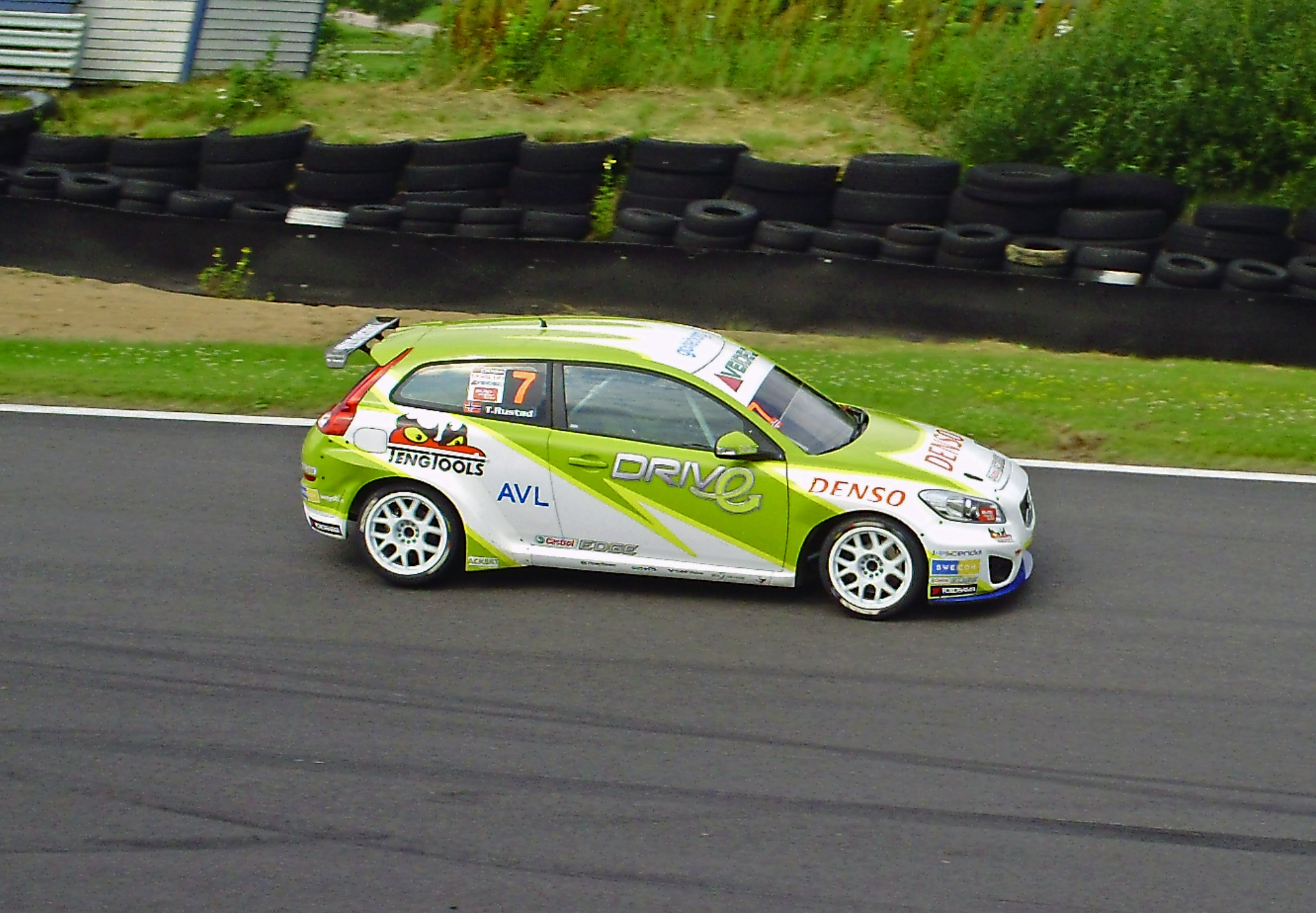 Tommy Rustad driving his Volvo C30 for Polestar Racing at Falkenbergs Motorbana, during the fifth round of the 2011 Scandinavian Touring Car Championship (STCC) season.